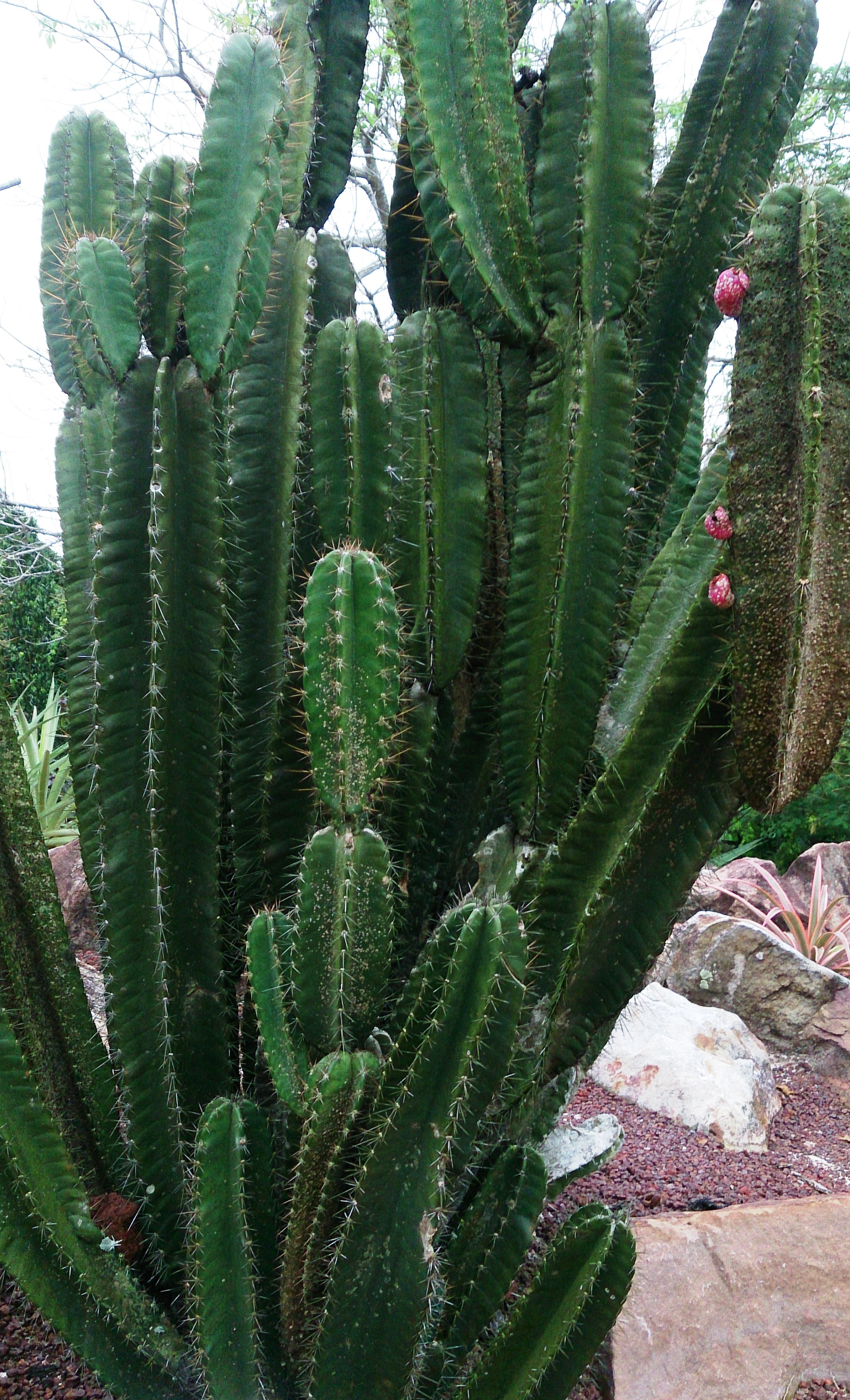 Cereus hildmannianus. Common names: Hedge Cactus. Peruvian Apple. Spiny Tree Cactus.